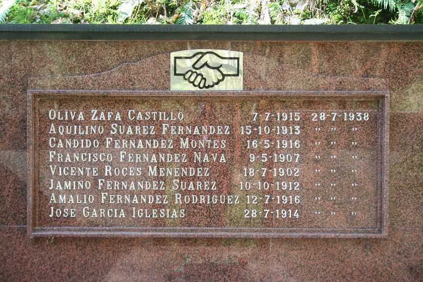 placa bornaina